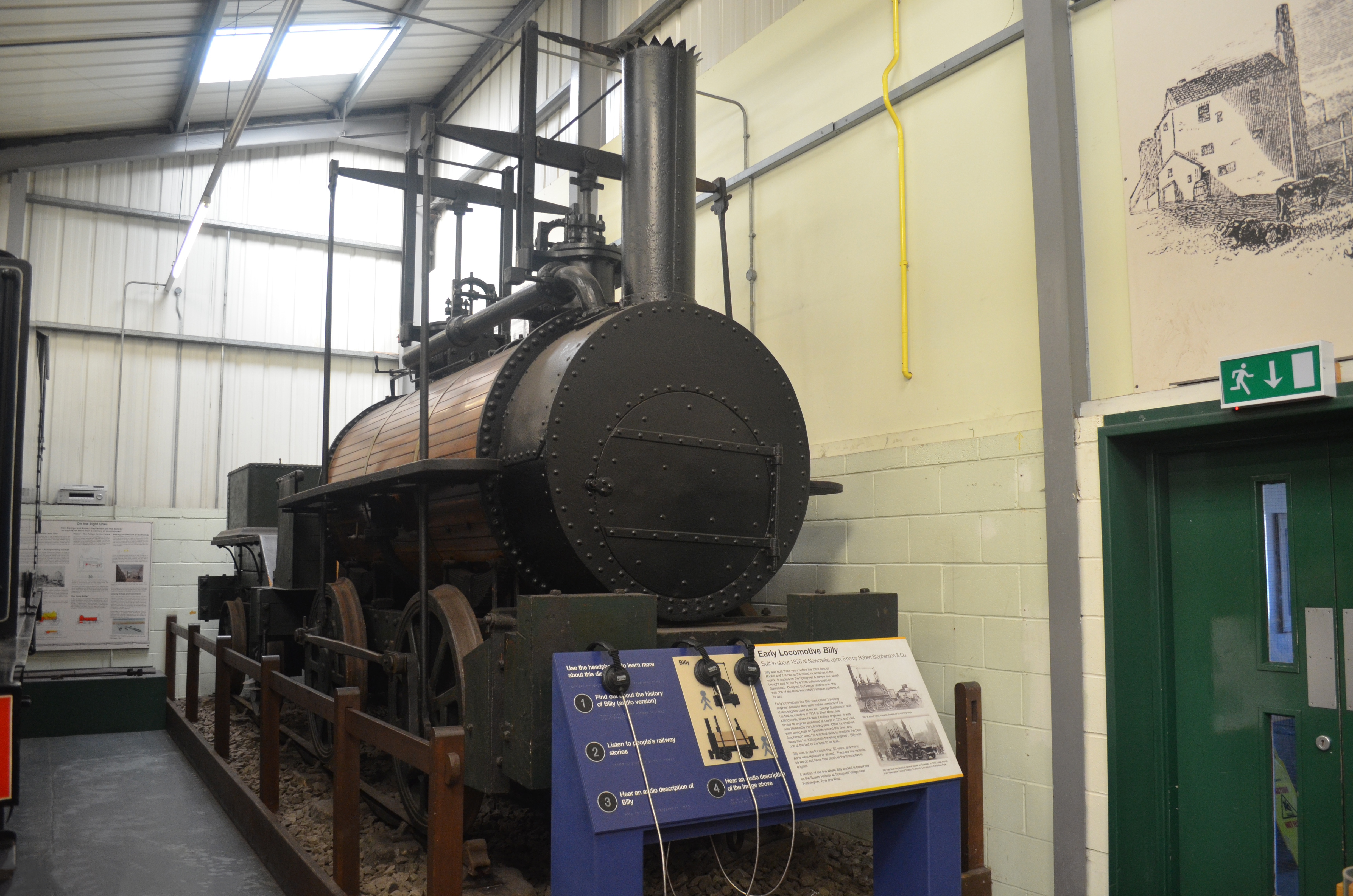 Robert Stephenson & Co's Billy locomotive in the hall at the Stephenson Railway Museum during the NTSR's Santa Specials 2012.